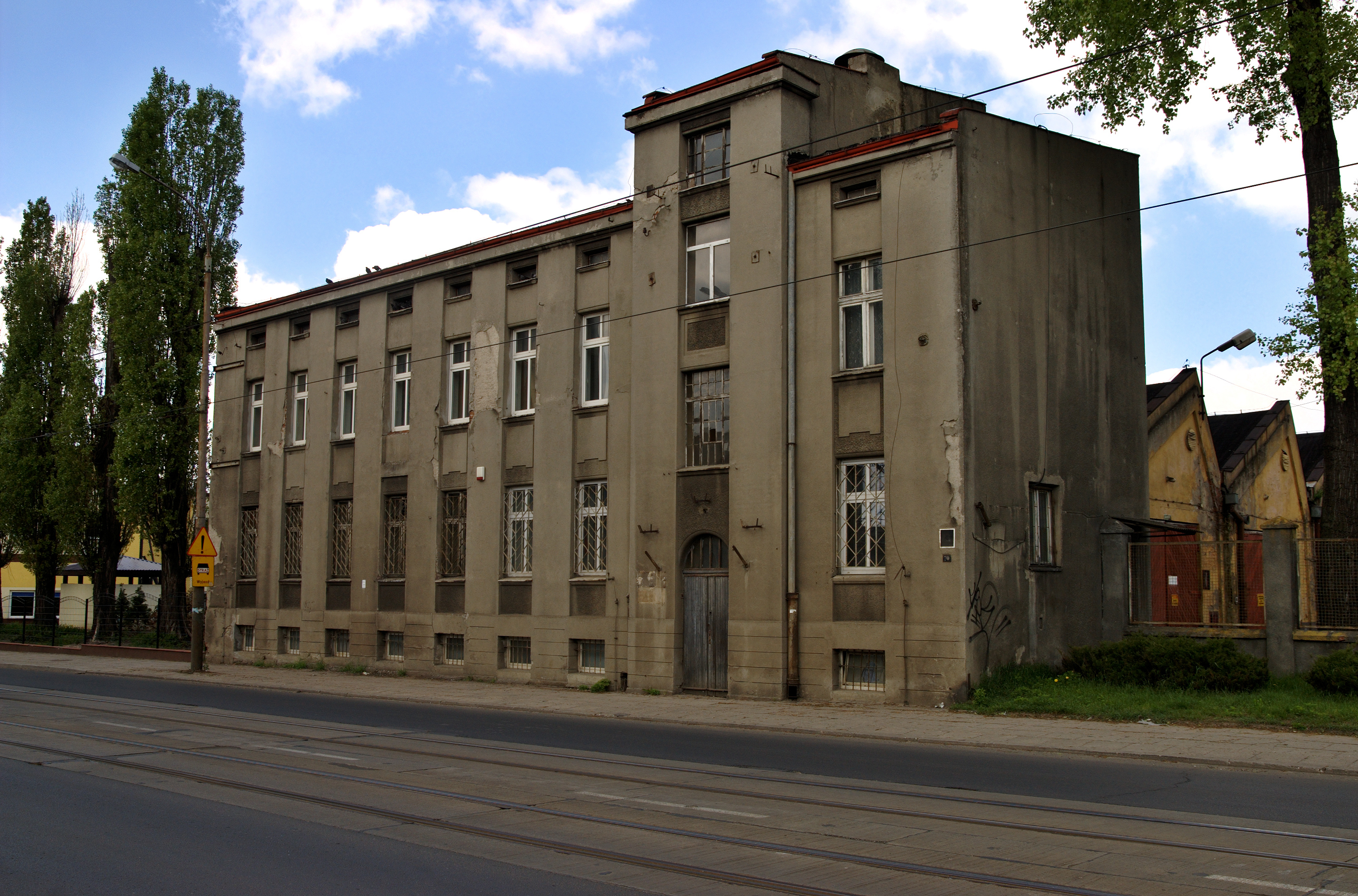 Przybyszewskiego 70 st., Łódź.